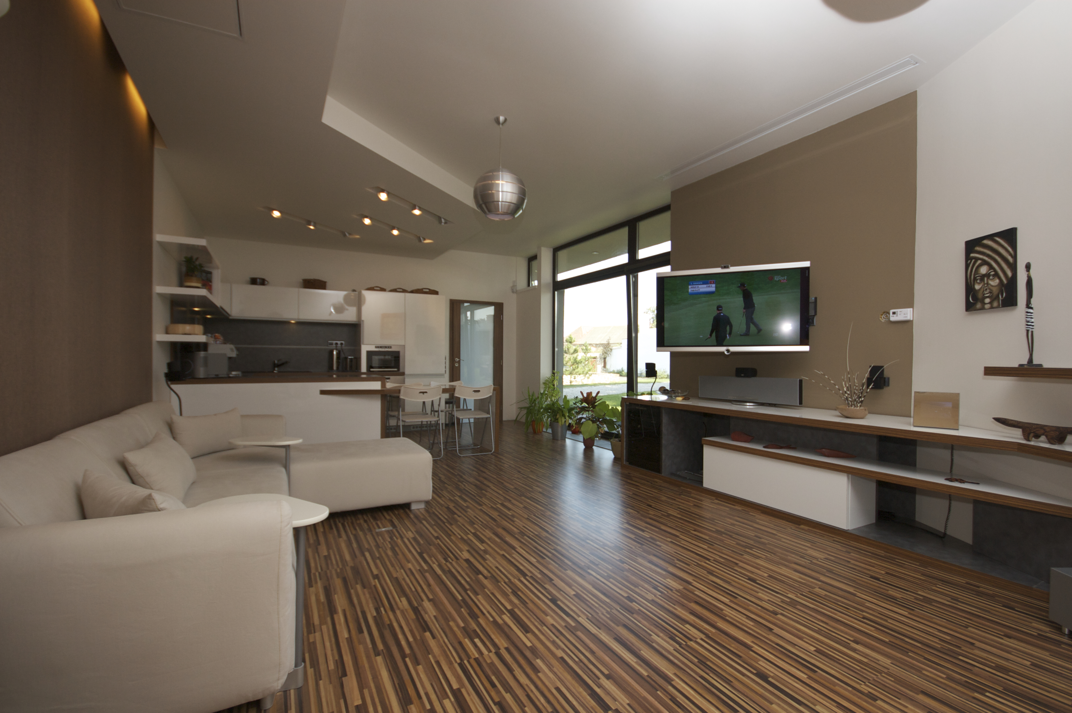 Living room of an intelligent building